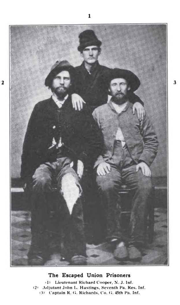 Mar 17 1865 photo of three Union Soldiers who escaped Confederate Prison Camp including Lieutenant Richard Cooper New Jersey Infantry, Adjutant John J. Hastings 7th Pennsylvania Reserve Infantry, and Captain Rees G. Richards Company G 45th Pennsylvania Infantry.